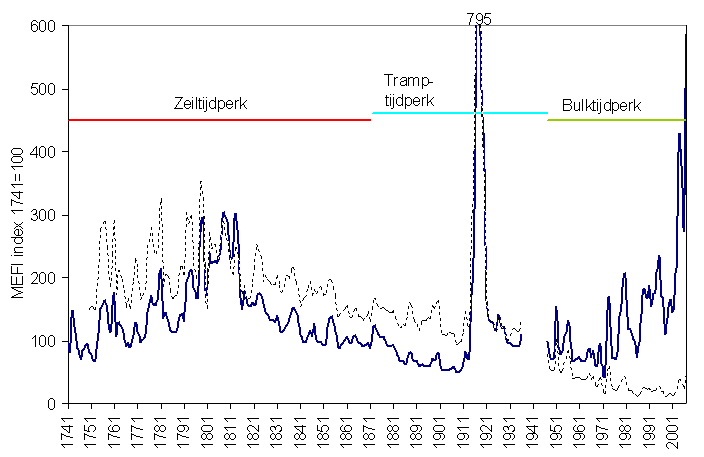 Dry cargo shipping cycles, 1741-2007 after Stopford, M. (2009): Maritime economics, 3rd edition